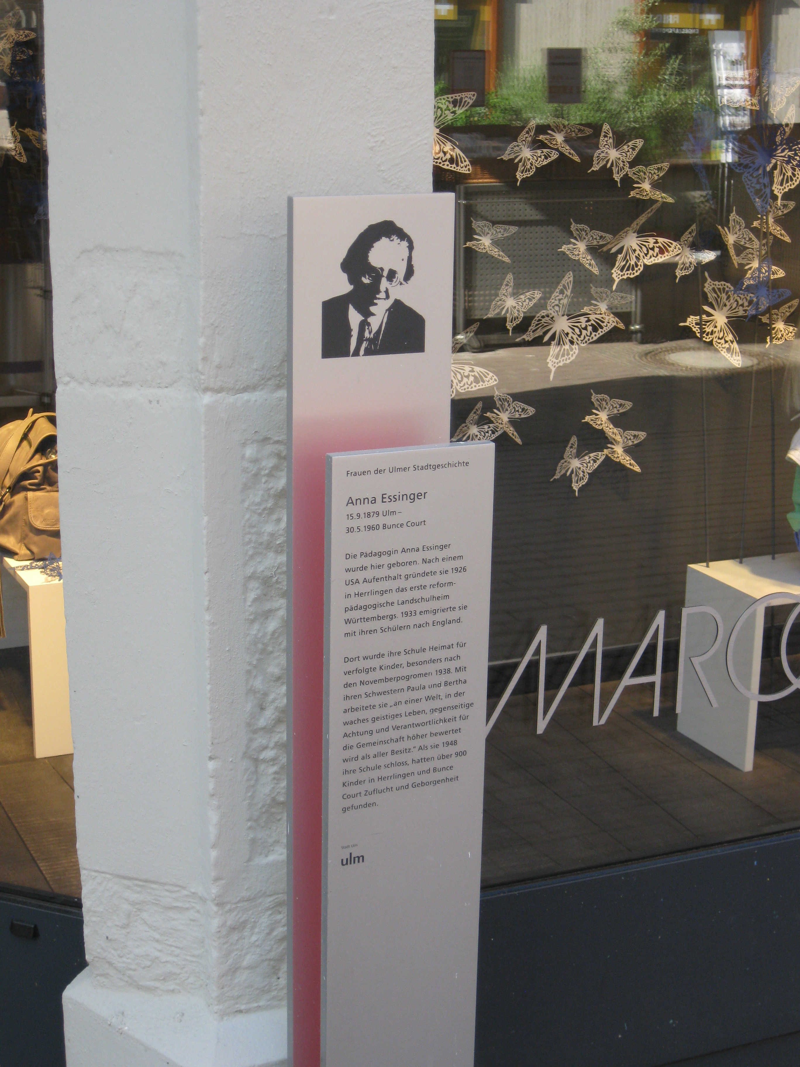 Commemorative plaque reads: Women in the history of the City of Ulm – Anna Essinger September 15, 1879 Ulm – May 30, 1960 Bunce Court Educator Anna Essinger was born here. After a stay in the U.S., she founded Württemberg's first progressive educational boarding school in 1926. In 1933, she emigrated to England with her pupils. There, her school became a home for persecuted children, especially after "The Night of Broken Glass" in 1938. With her sisters Paula and Bertha, she worked "on a world, in which alert, spiritual life, mutual respect and responsibility for the community is valued more than all possessions. As she close her school in 1948, more than 900 children had found refuge and comfort in Herrlingen and Bunce Court. City of Ulm